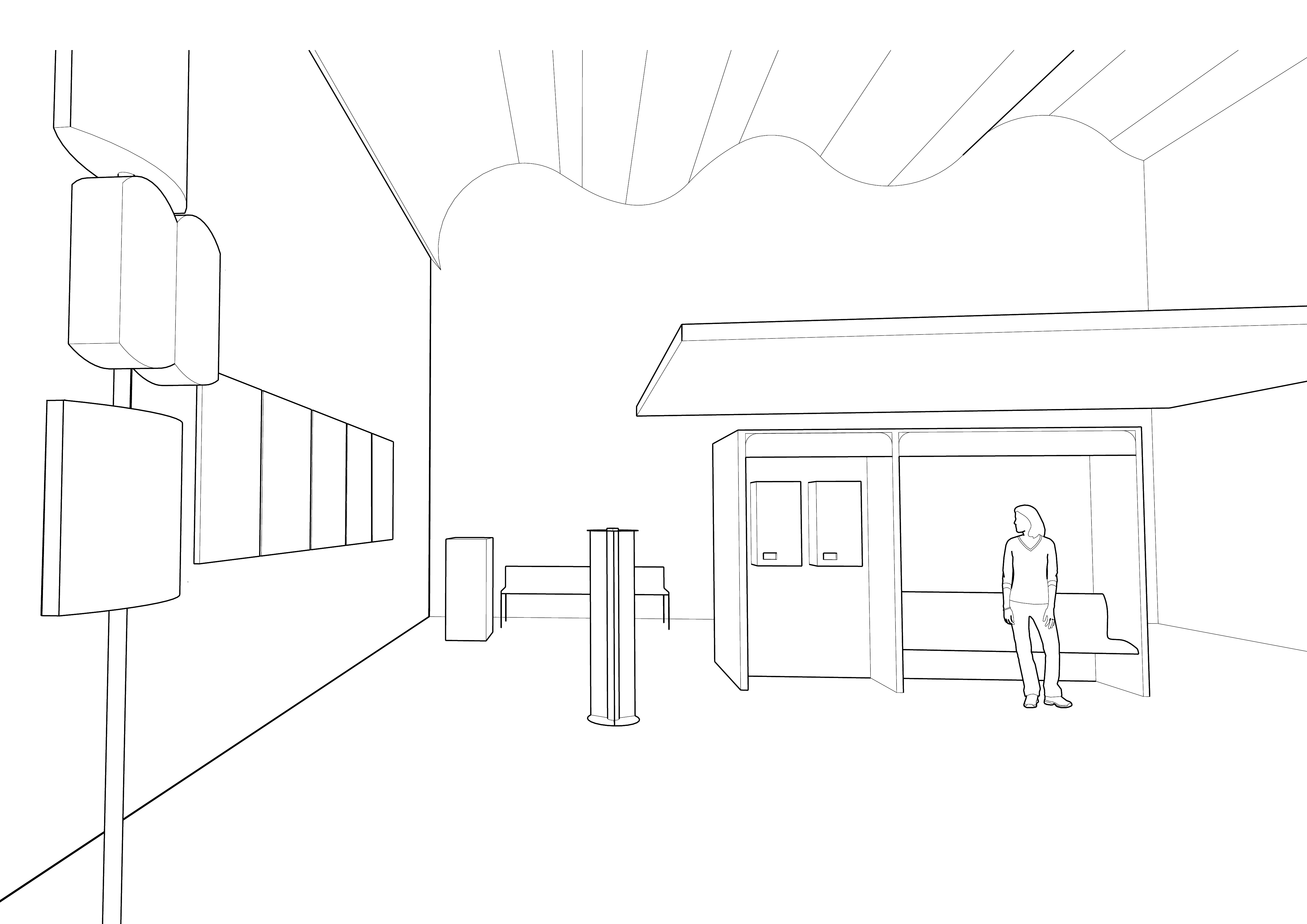 Germania XIV